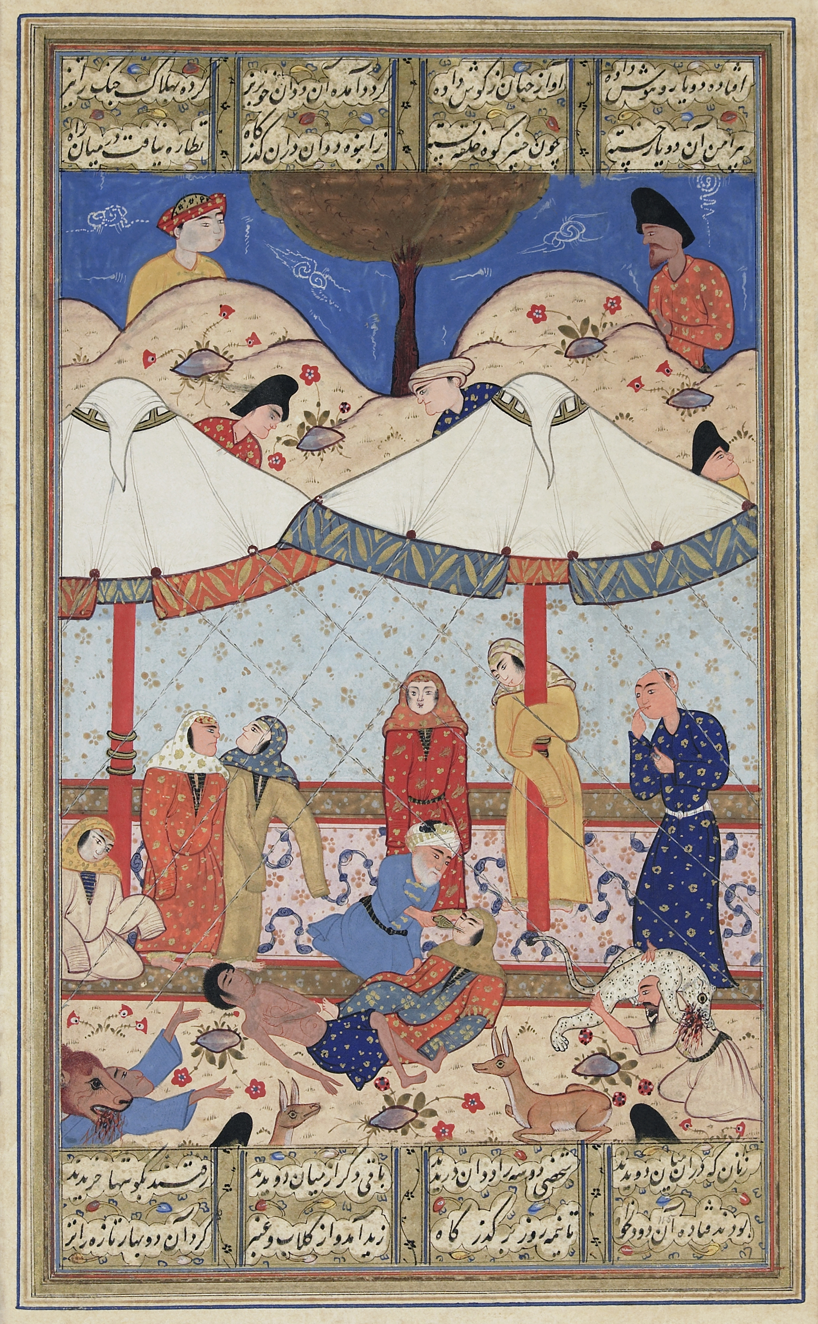 “The fainting of Laylah and Majnun” This folio depicts a well-known passage from the tragic story of Layla and Majnun described in the third book of Nizami's "Khamsah" (Quintet). Forcibly separated by their respective tribes' animosity, forced marriage, and years of exile into the wilderness, these two ill-fated lovers meet again for the last time before their deaths thanks to the intervention of Majnun's elderly messenger. Upon seeing each other in a palm-grove immediately outside of Laylah's camp, they faint of extreme passion and pain. The old man attempts to revive the lovers, while the wild animals protective of Majnun ("The King of Wilderness") attack unwanted intruders. The location and time of the narrative is hinted at by the two tents dressed in the middleground and the dark nighttime sky in the background. The composition's style and hues are typical of paintings made in the city of Shiraz during the second half of the 16th century. Many manuscripts at this time were produced for the domestic market and international export, rather than by royal commission. This particular painting appears to have been executed at the same time as the text of the "Khamsah" proper, which survives on the painting's verso. Script: nasta'liq Dimensions of Painting: Recto: 12.2 (w) x 16.7 (h) cm Dimensions of Written Surface: 12.2 (w) x 20.9 (h) cm